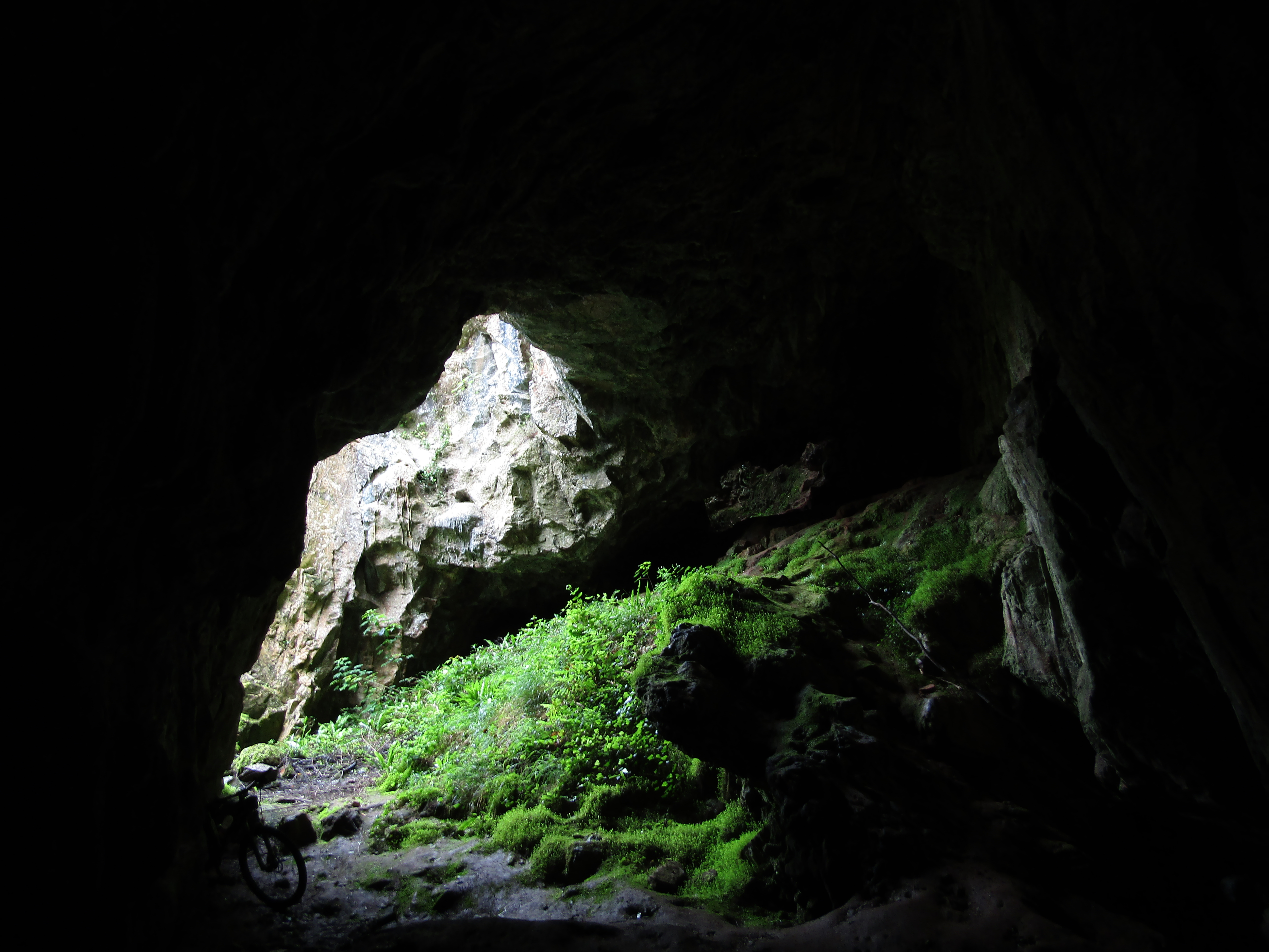 A view of the main cave entrance and the natural entrance.